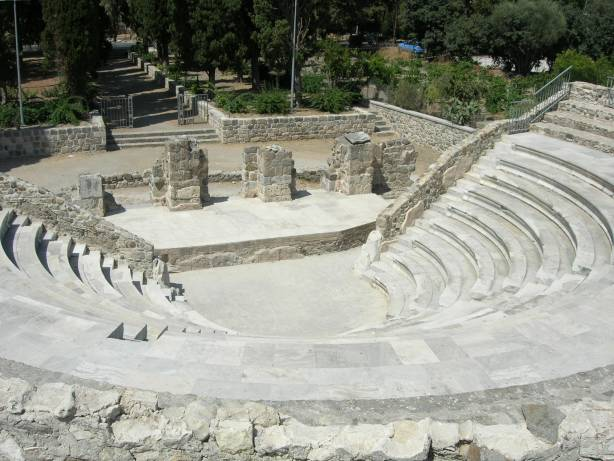 Kos, theatre